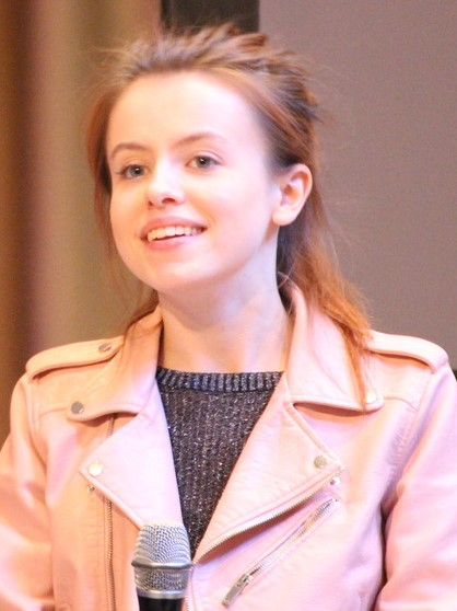 Rosie Day at The Gathering 2017 convention in Cologne